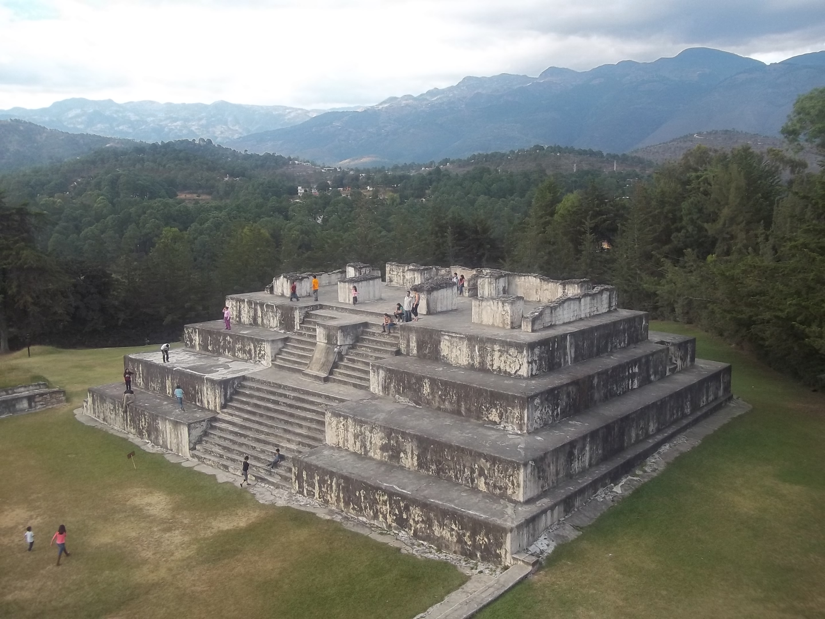 Zaculeu, Mam Maya ruins in Huehuetenango, Guatemala.